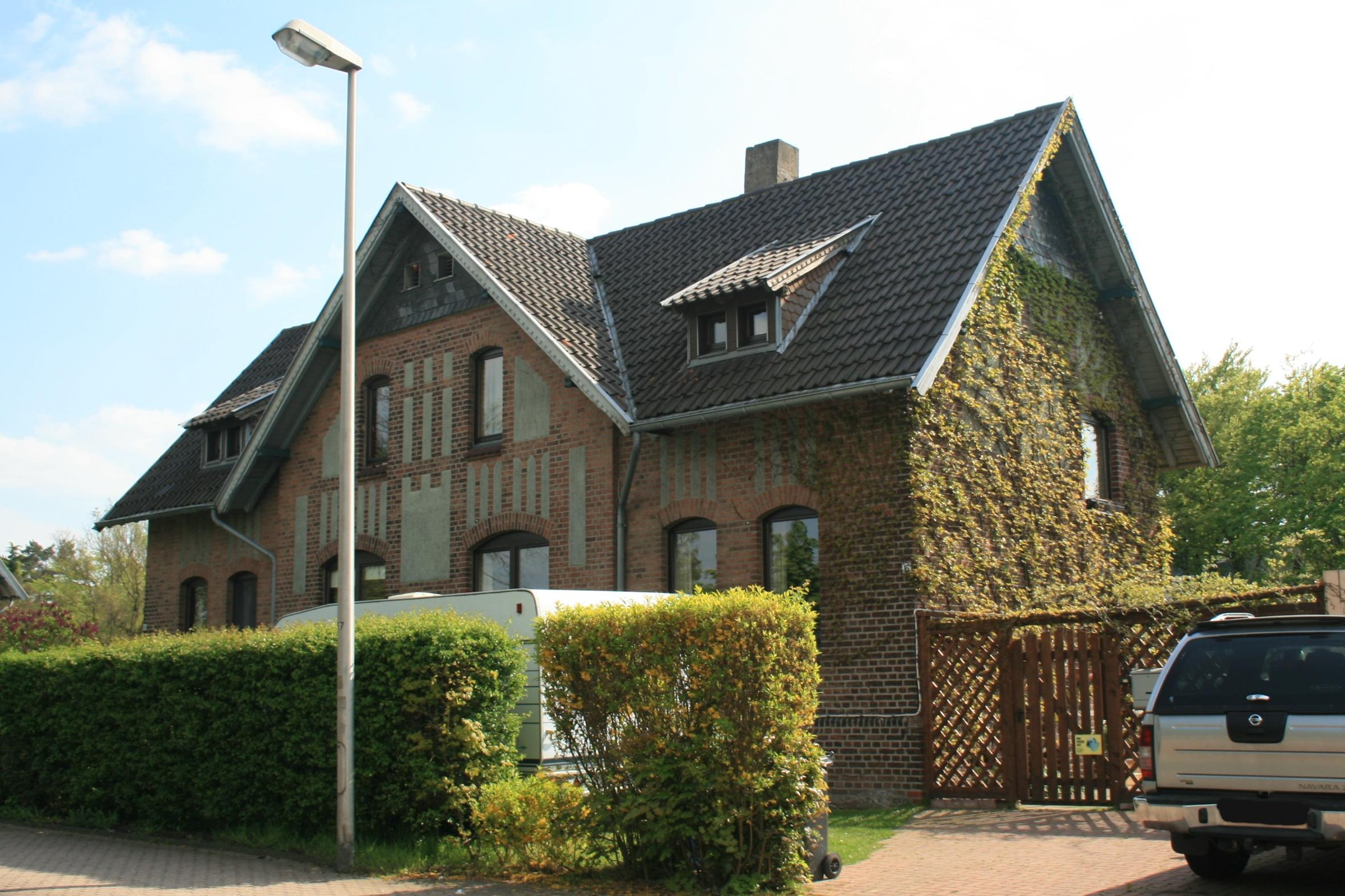 Cultural heritage monument No. 1/001p in Düren